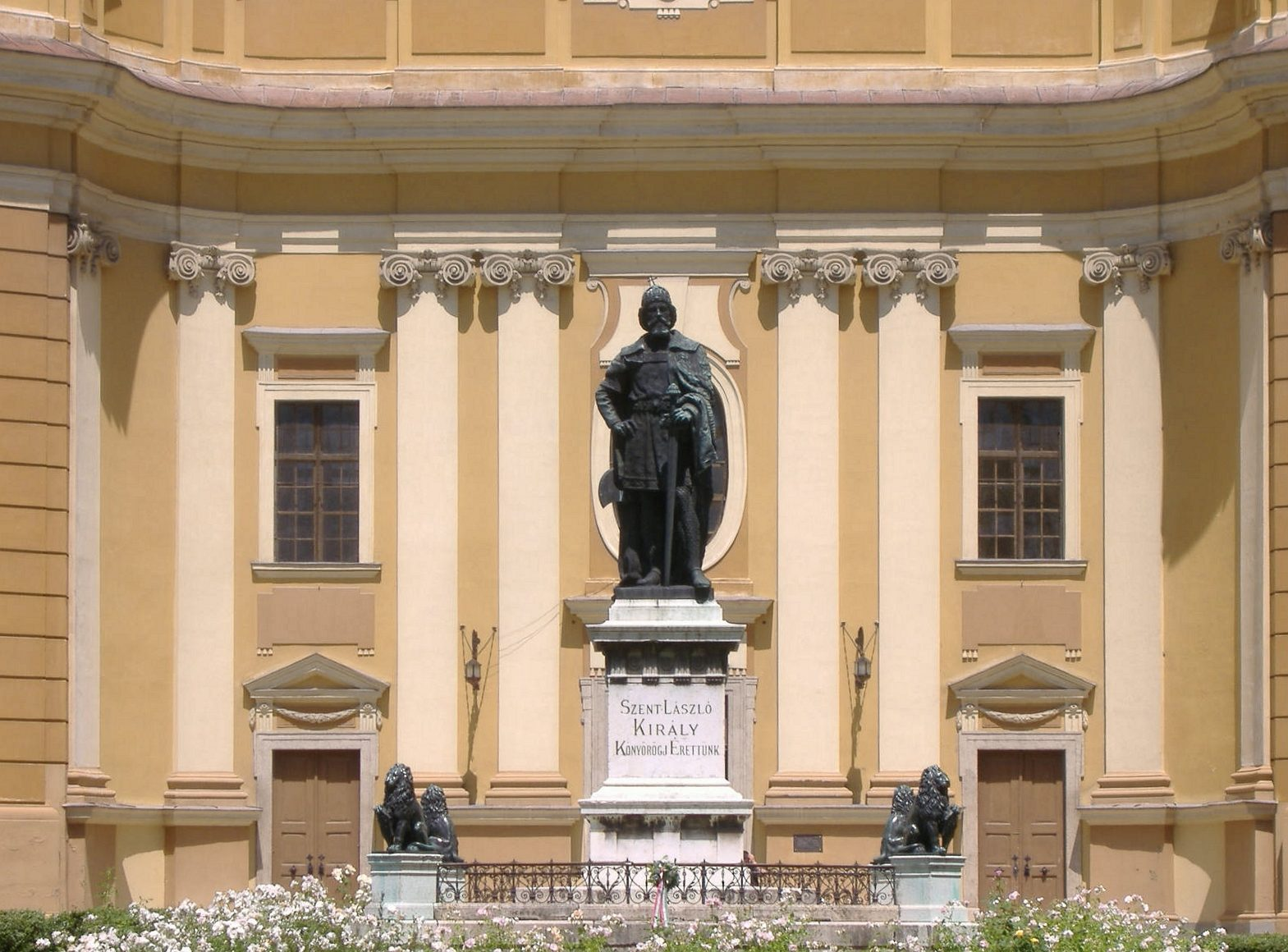 Statue of Saint Laszlo, Oradea, Nagyvárad, work of István Tóth (1861-1934)